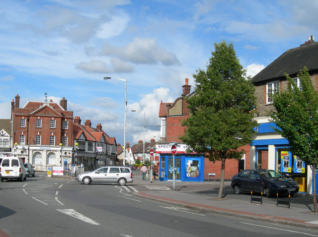 Lower Addiscombe Road, Addiscombe Near the junction with Fernhurst Road and Blackhorse Lane.